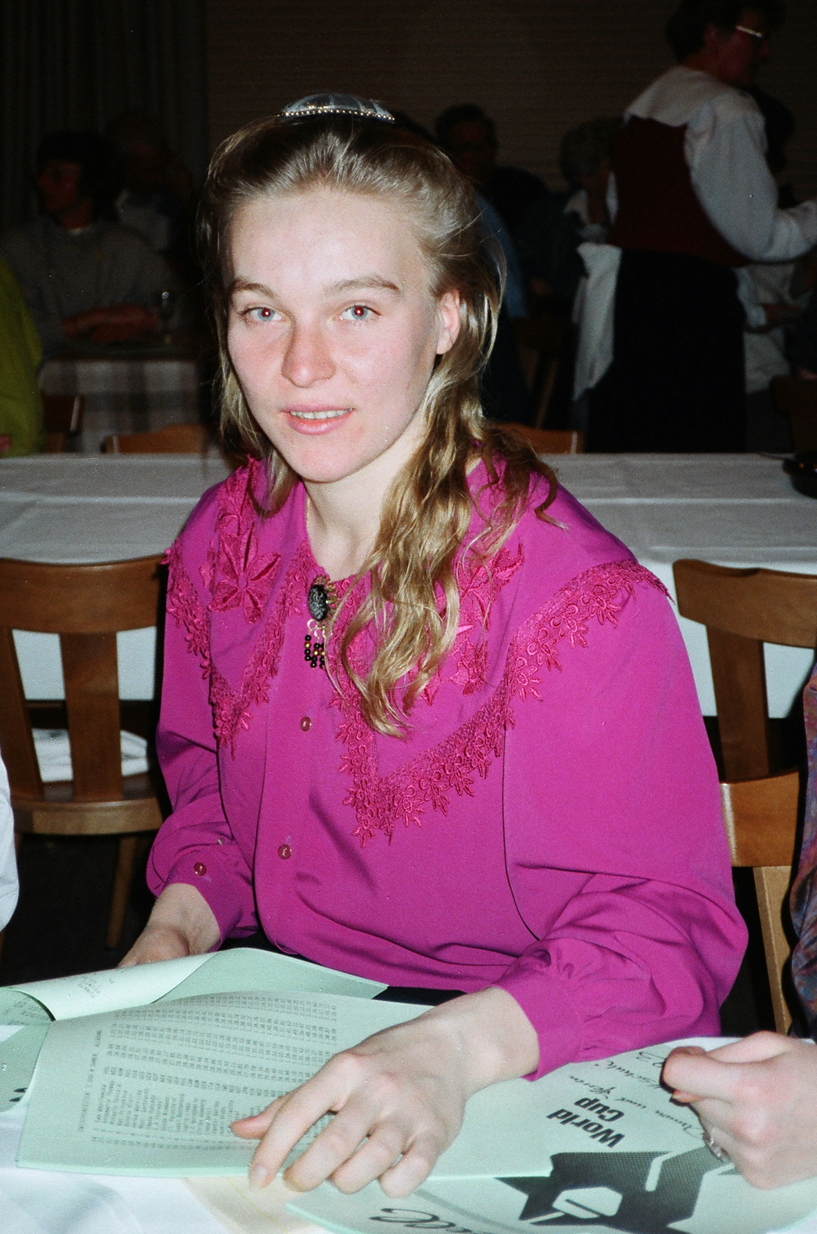 Svetlana Bazhanova,russian speedskater